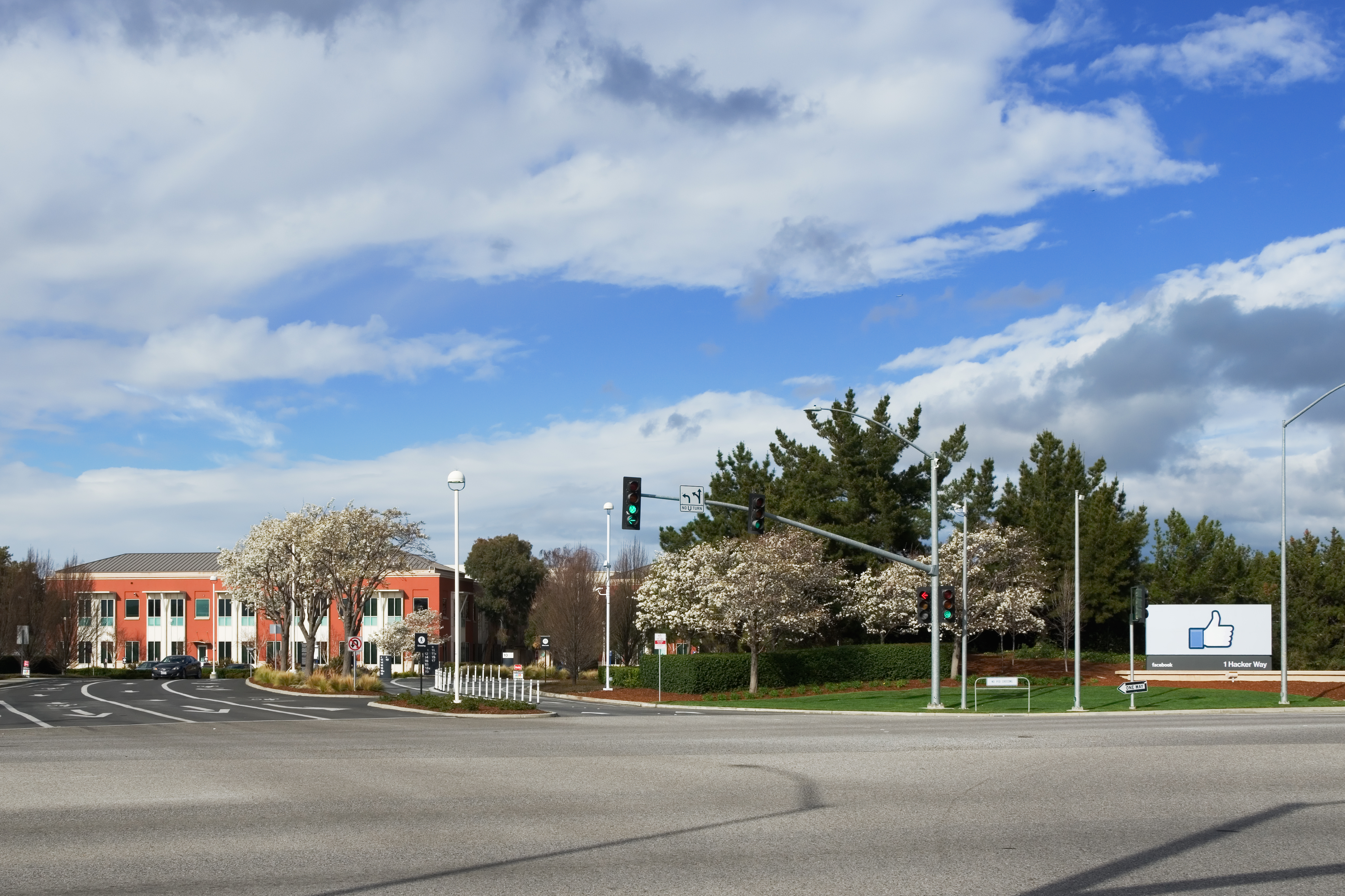 Entrance to Facebook headquarters complex in Menlo Park, California